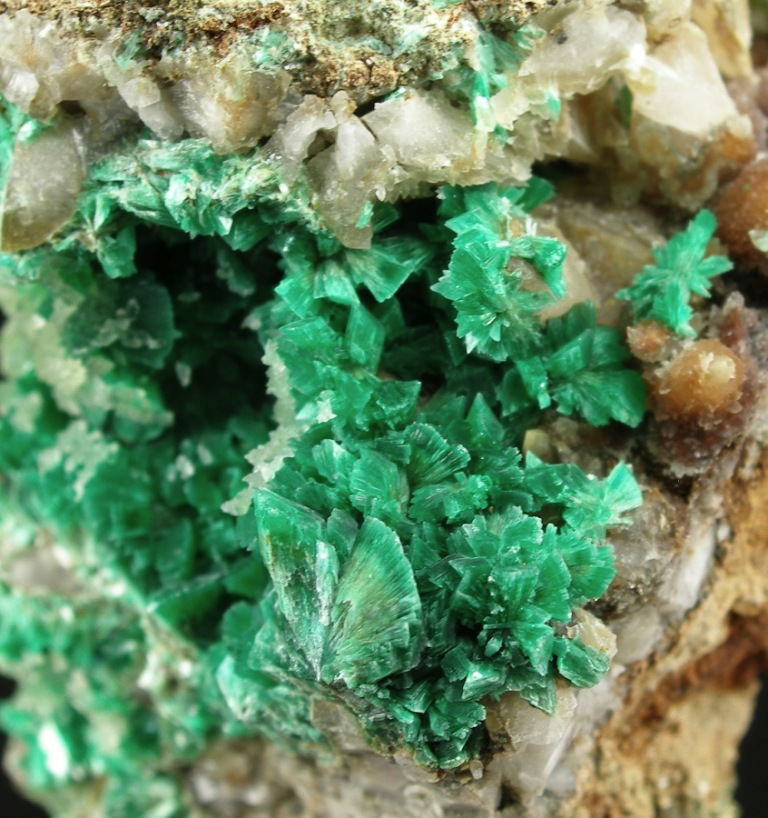 Annabergite, Smithsonite (Var.: Cuprian Smithsonite) Locality: Km-3 Mine, Lavrion Mines, Lavrion (Laurion; Laurium), Lavrion District Mines, Lavrion (Laurion; Laurium) District, Attikí (Attica; Attika) Prefecture, Greece (Locality at ) Size: 8.3 x 5.4 x 4.4 cm. This is a major annabergite specimen with huge crystal clusters to nearly 1 cm, associated with translucent green cuprian smithsonite. Annabergite occurs at its best from this locality, though great specimens are few and far between, despite hundreds of years of collecting. For overall richness, crystal size, and exceptional crystal definition, this is an important and attractive specimen.